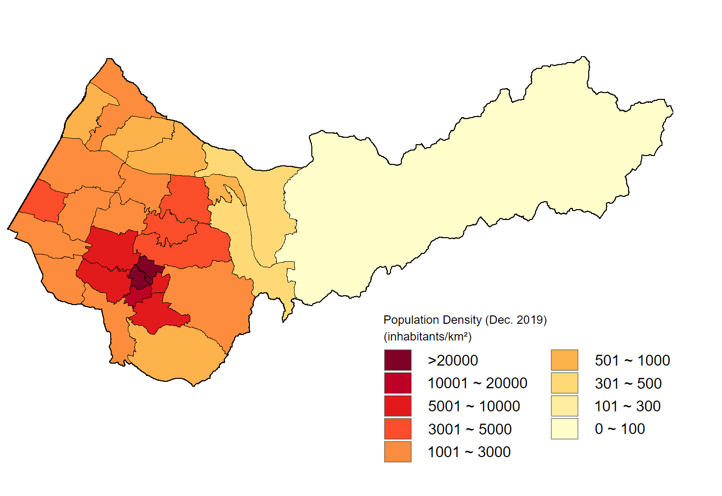 Population density map of Taichung (Dec 2019)